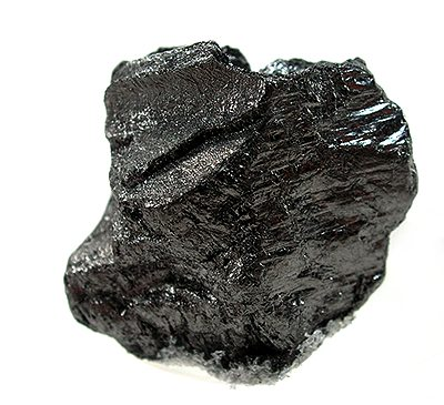 Graphite Locality: El Cochi, Sonora, Mexico Size: thumbnail, 2.5 x 2.4 x 1.2 cm Graphite This is a crudely crystallized graphite, colored battleship gray with a resinous luster. I must admit that it is hard to think of this having the the composition, carbon, as diamond. Anyways, a neat locality piece!